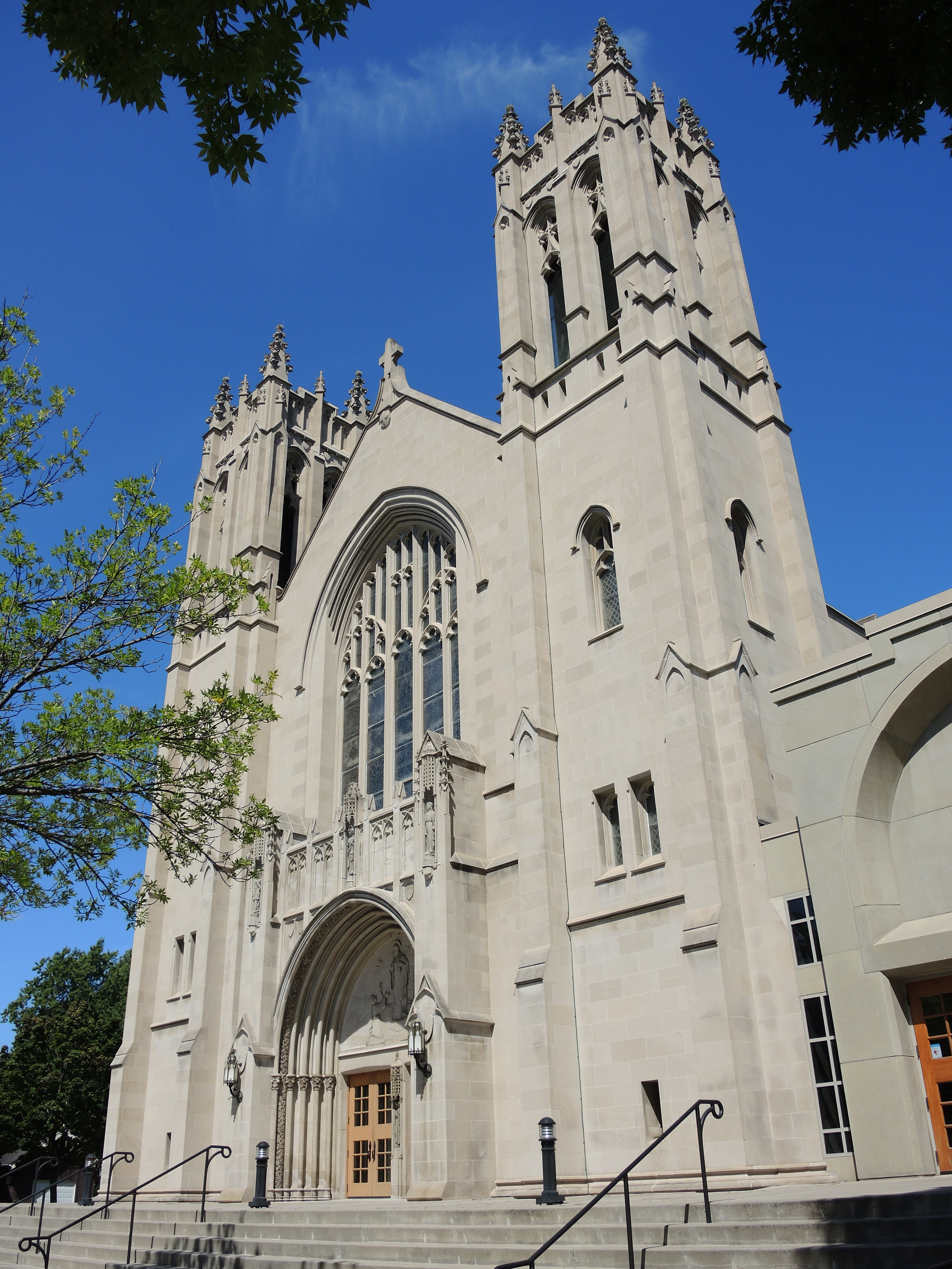 View of Sacred Heart Cathedral (Rochester, New York) in Rochester, New York from the south